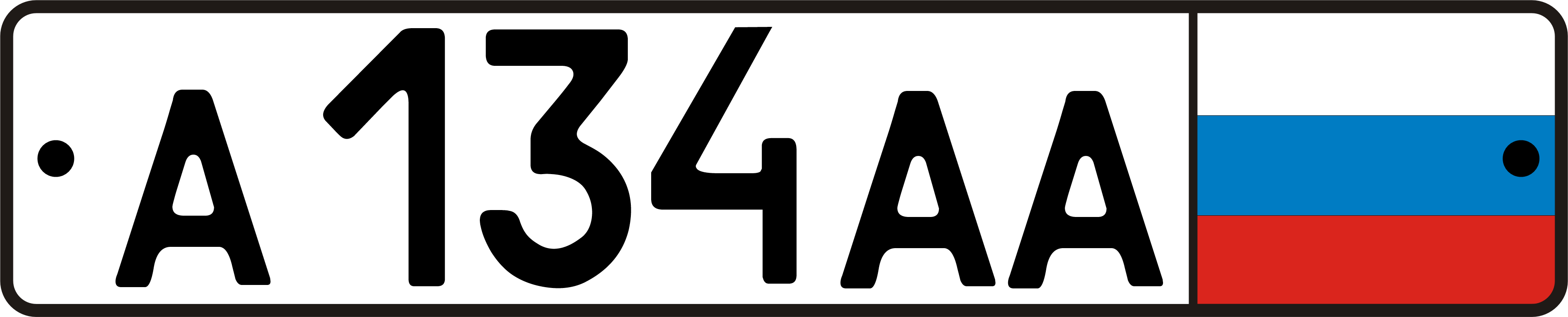 Russian license plate. Known as Federal License plate.